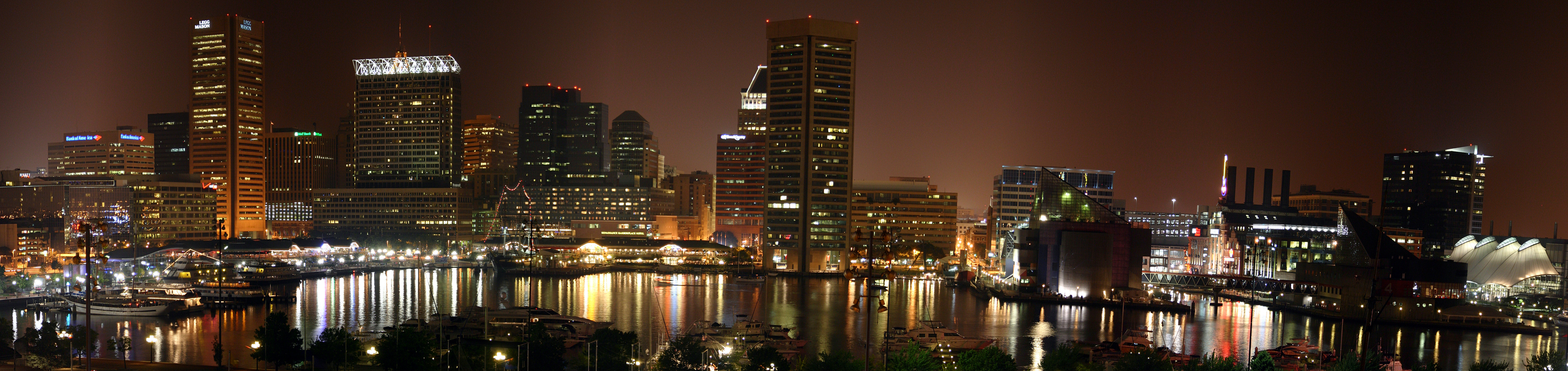 A night time panorama of Baltimore's Inner Harbor